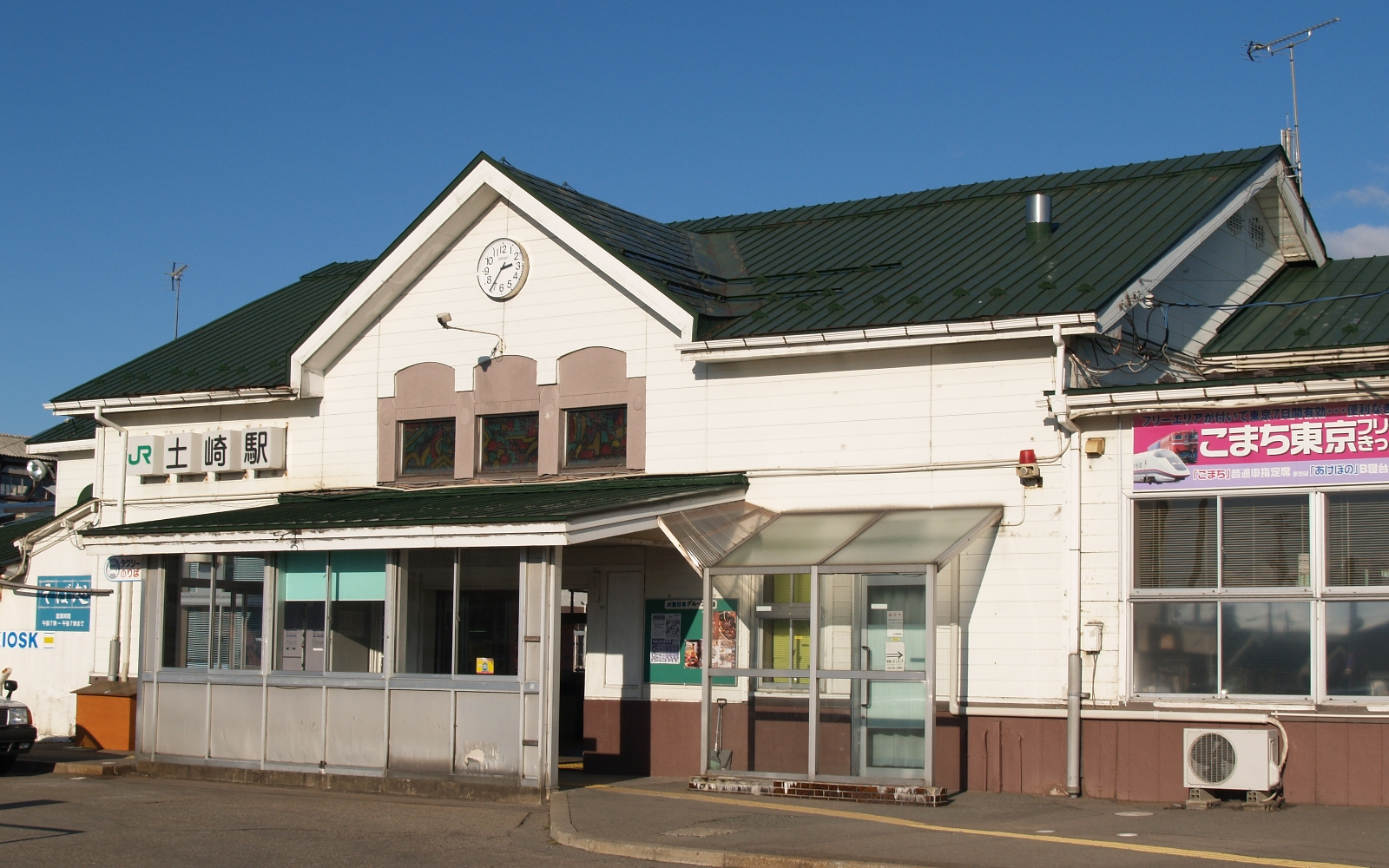 Tsuchizaki Station